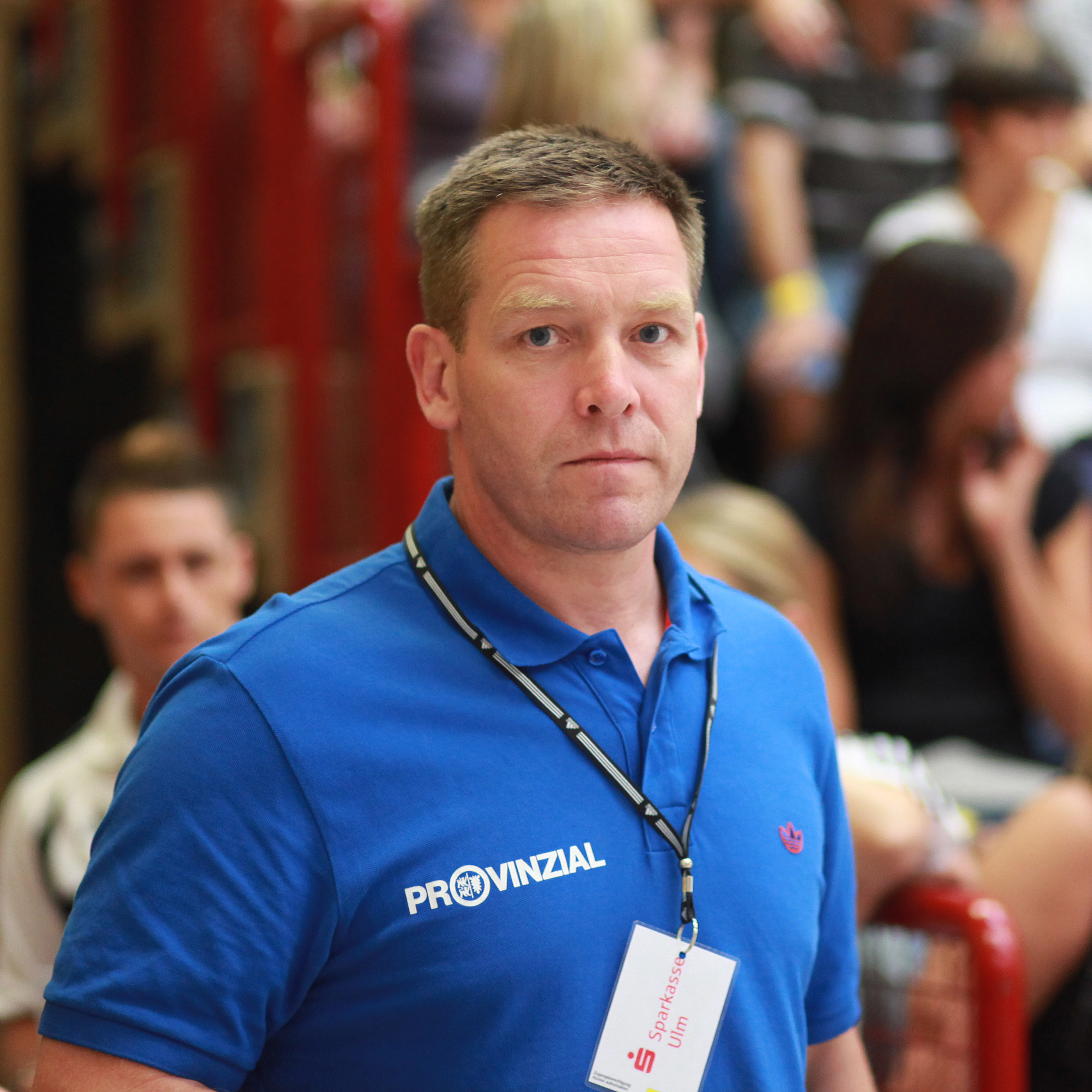 Alfreð Gíslason, Icelandic handball coach from THW Kiel, on August 22nd 2009 in Ehingen (Germany), during the Schlecker Cup 2009